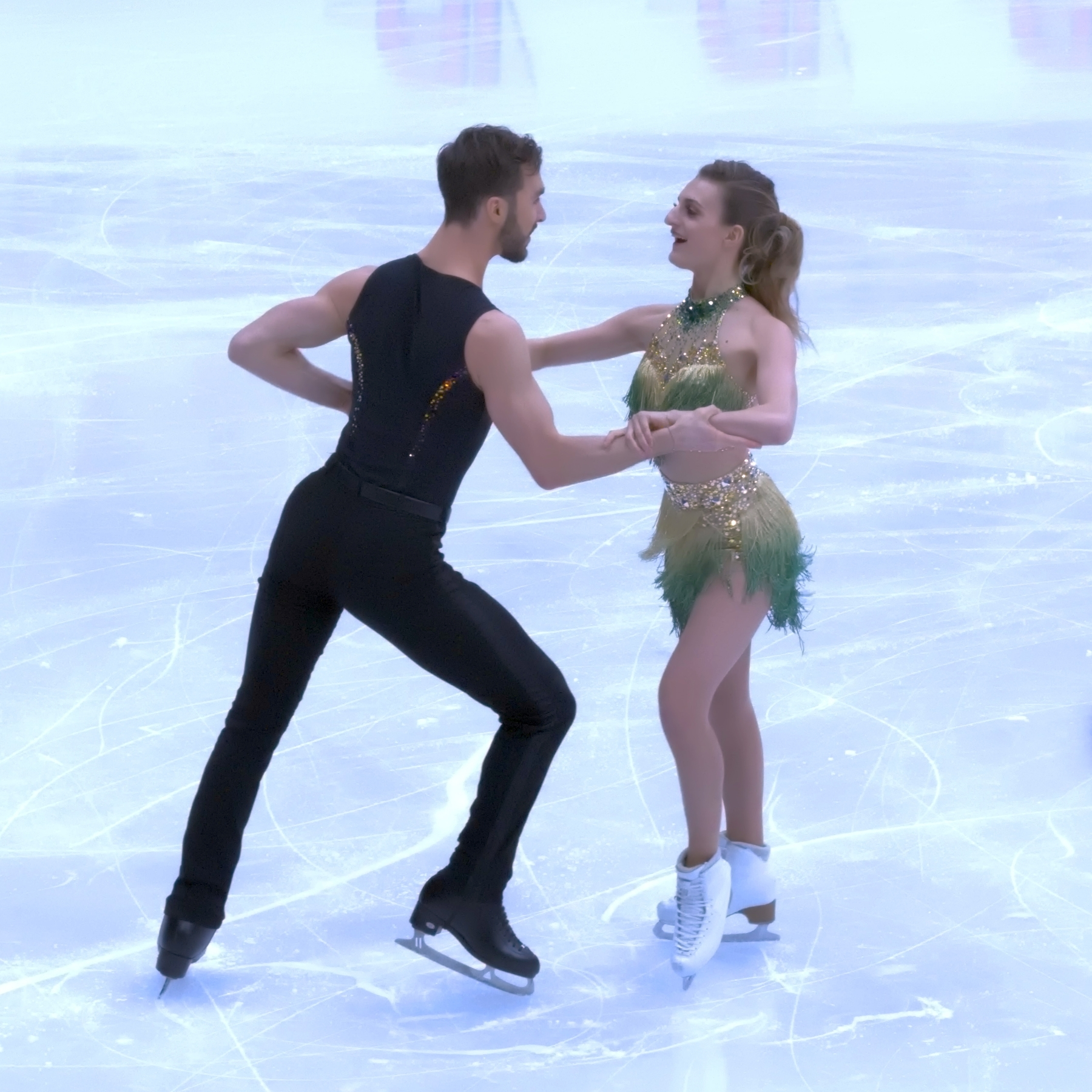 Gabriella Papadakis and Guillaume Cizeron at the 2018 European Figure Skating Championships in Moscow